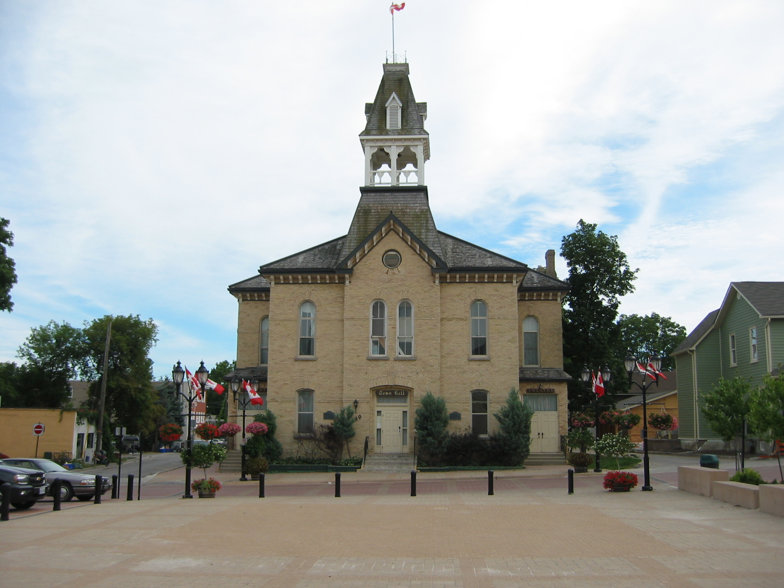 Newmarket's Old Town Hall, photographed by me, Kelisi on 17 August 2006. I release the image under WILDEBEEST.